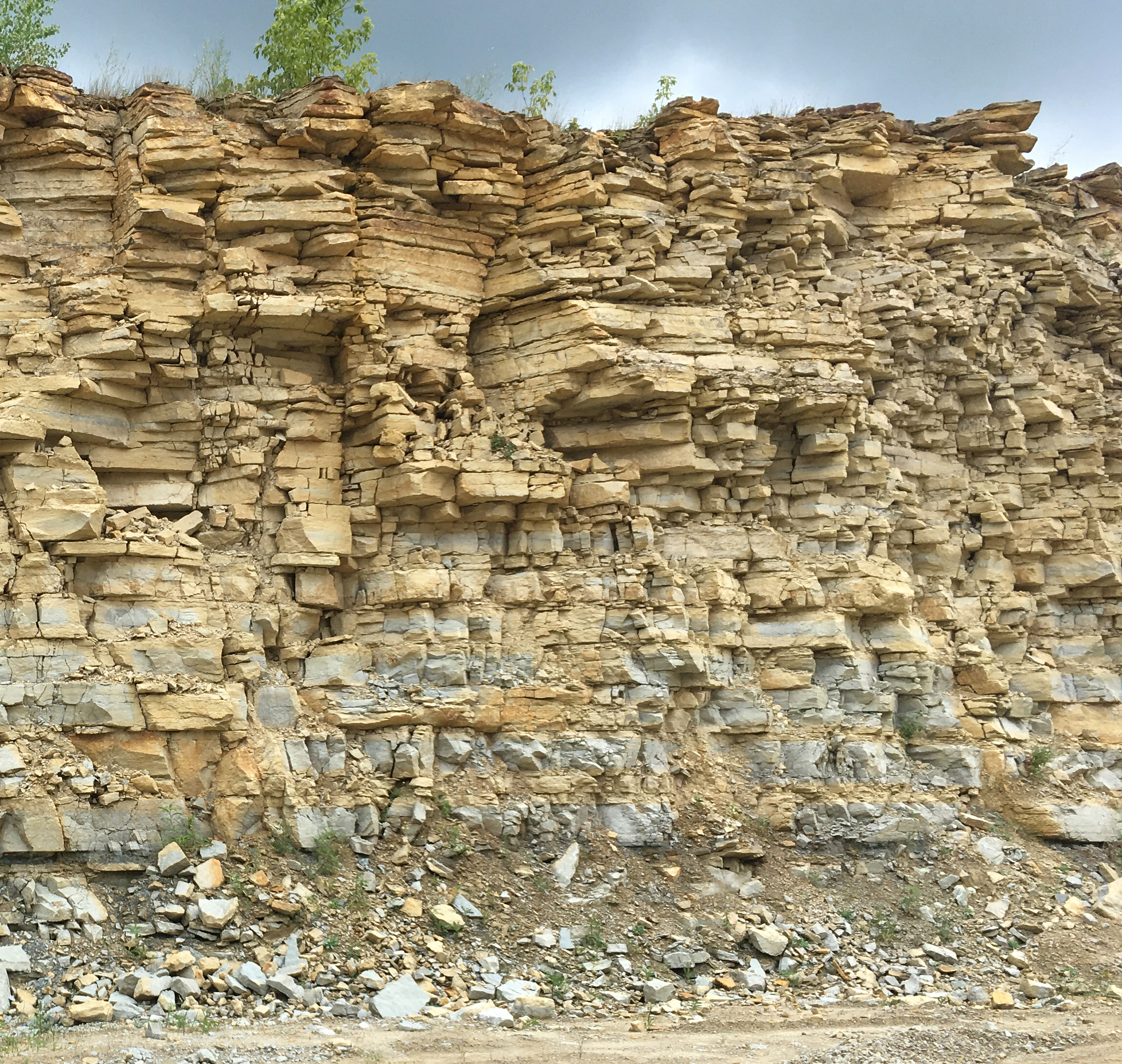 Shakopee Formation (Lower Ordovician) exposed in Hernke's Rock Quarry near Cannon Falls, SE Minnesota.